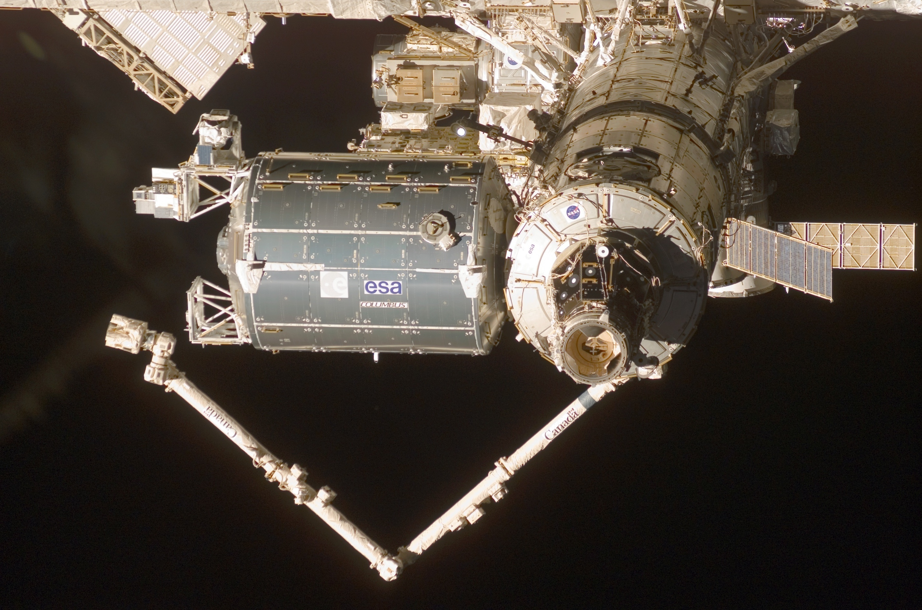 A close-up view of the Columbus laboratory (center left) -- newest addition to the International Space Station -- is featured in this image photographed by a STS-122 crewmember on Space Shuttle Atlantis shortly after the undocking of the two spacecraft.